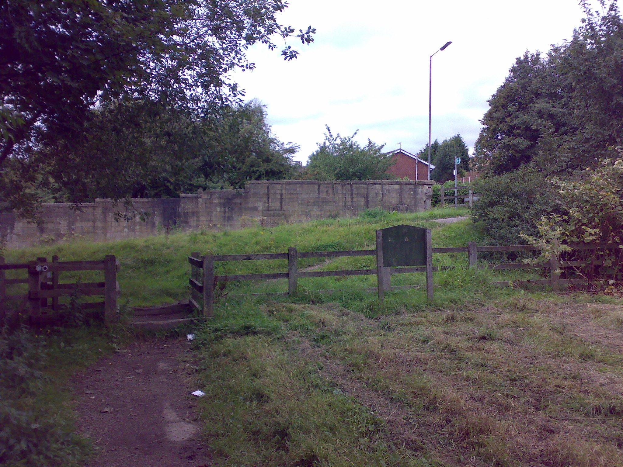 The rebuilt (1930) Smithy bridge, looking north. The bridge was infilled with foamed concrete to make it stronger, and to preserve the structure and path of the canal should it be restored here.It was also unfilled due to intravenous drug use and needles being left.